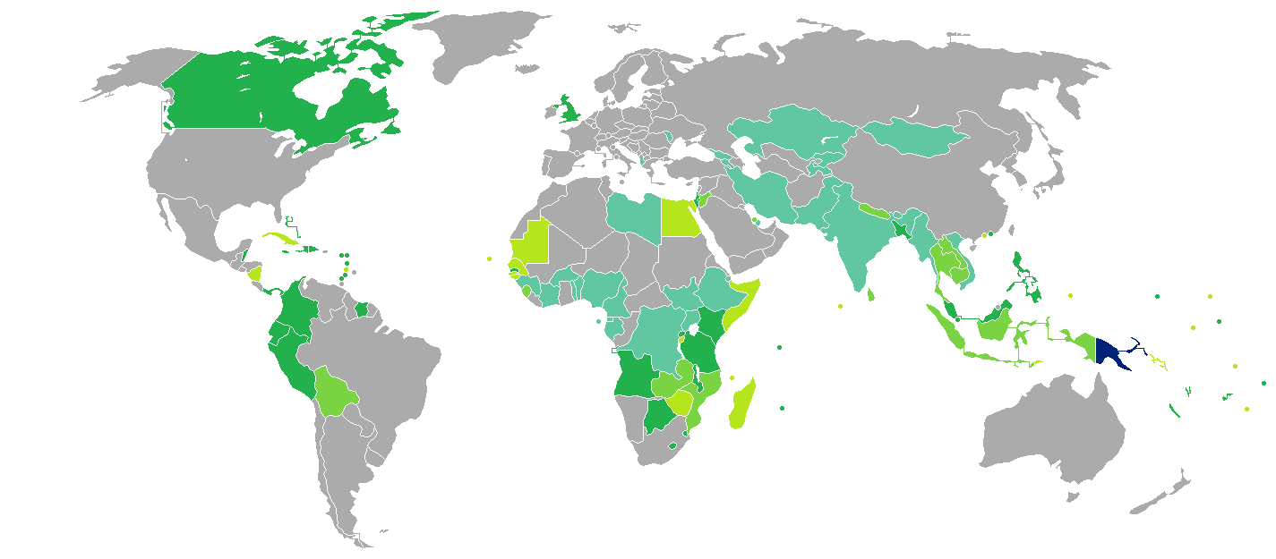 Visa requirements for Papua New Guinean citizens Papua New Guinea Visa free access Visa on arrival eVisa Visa available both on arrival or online Visa required